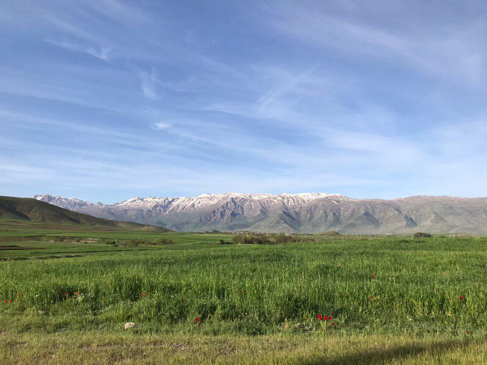 آژوان